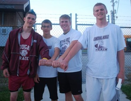 Central Noble track and field regional team '09